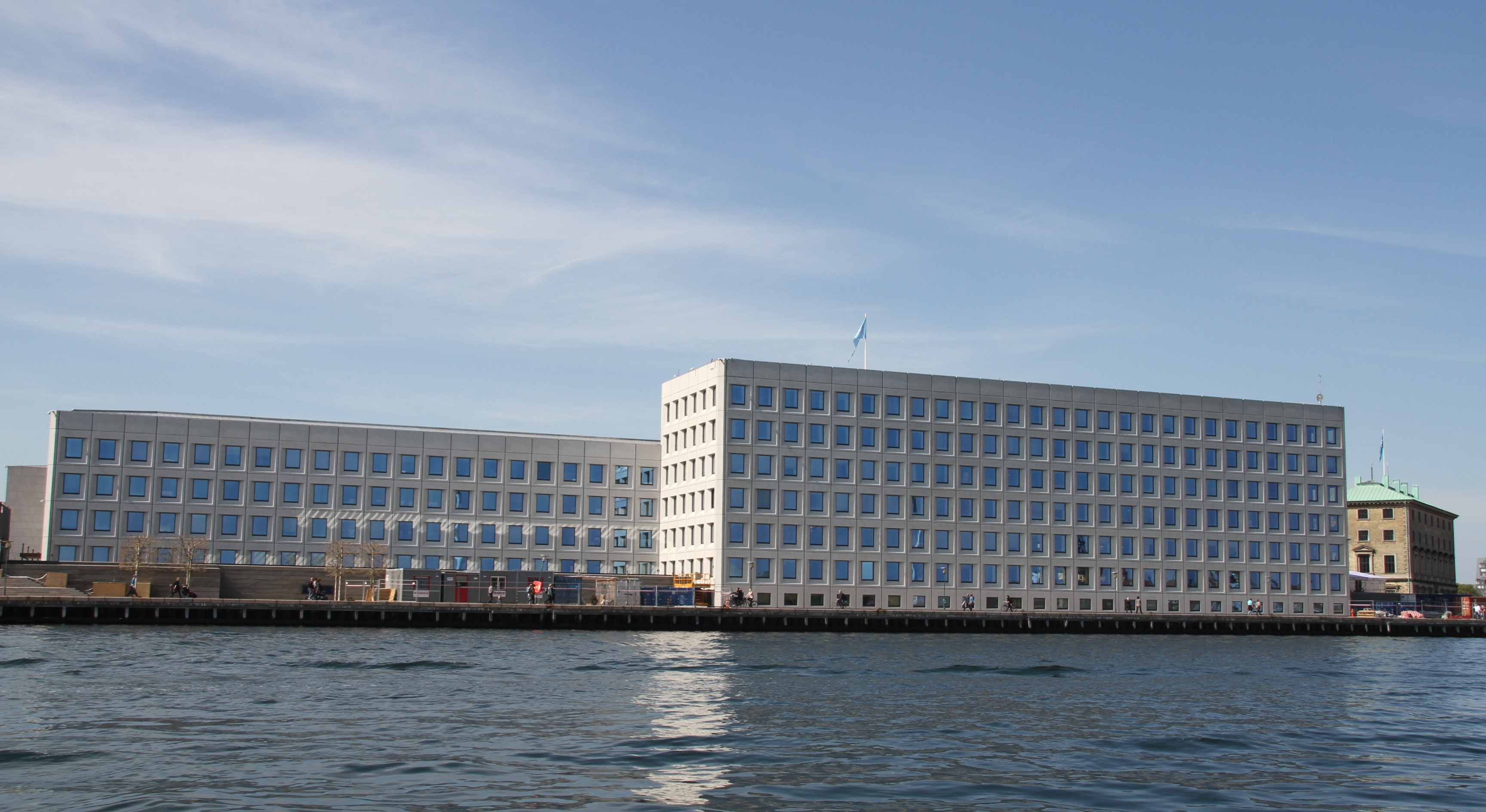 The headquarters of A P Møller (incl Maersk) in Copenhagen, Denmark. This is one of Denmark's largest companies.